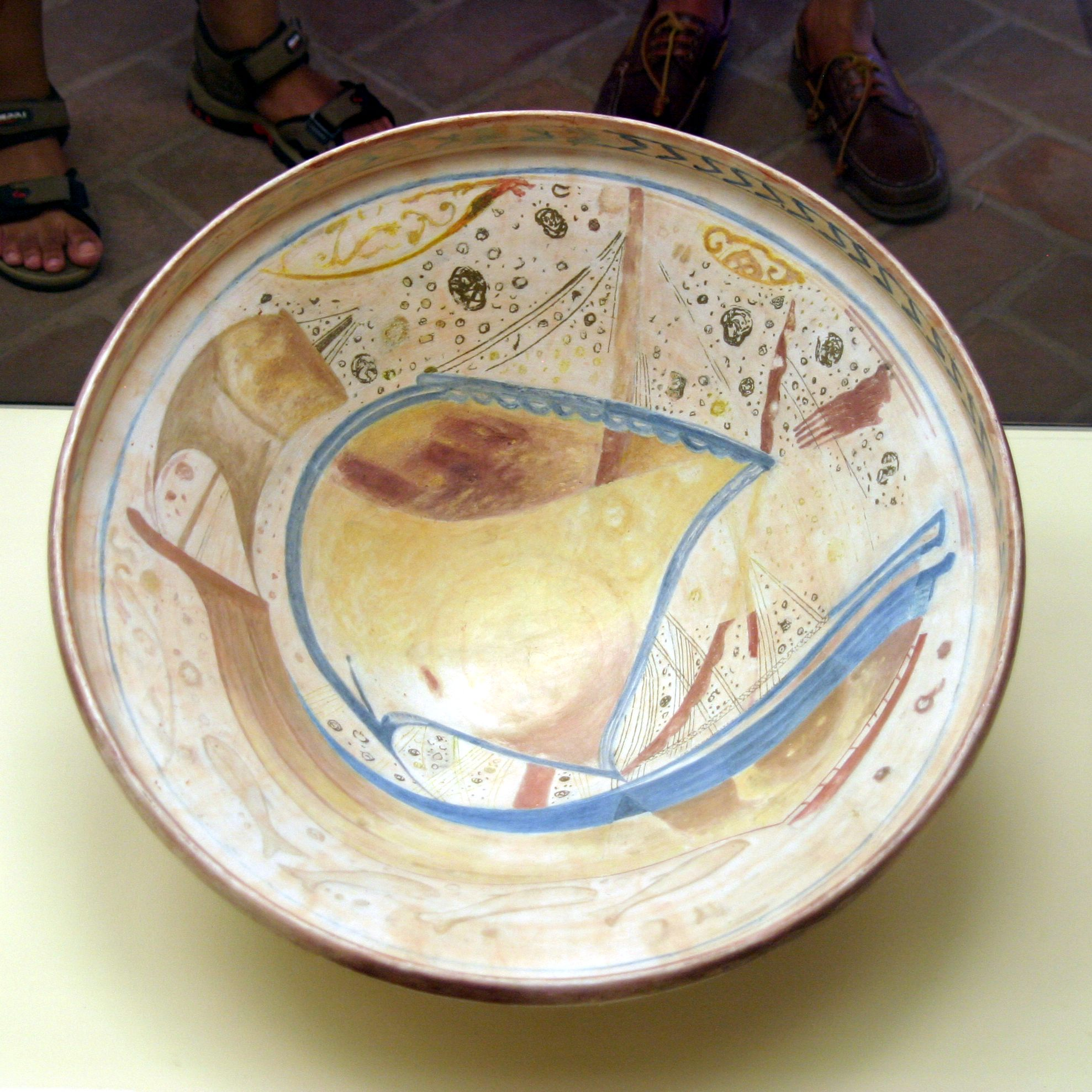 Alcazaba of Malaga, Spain